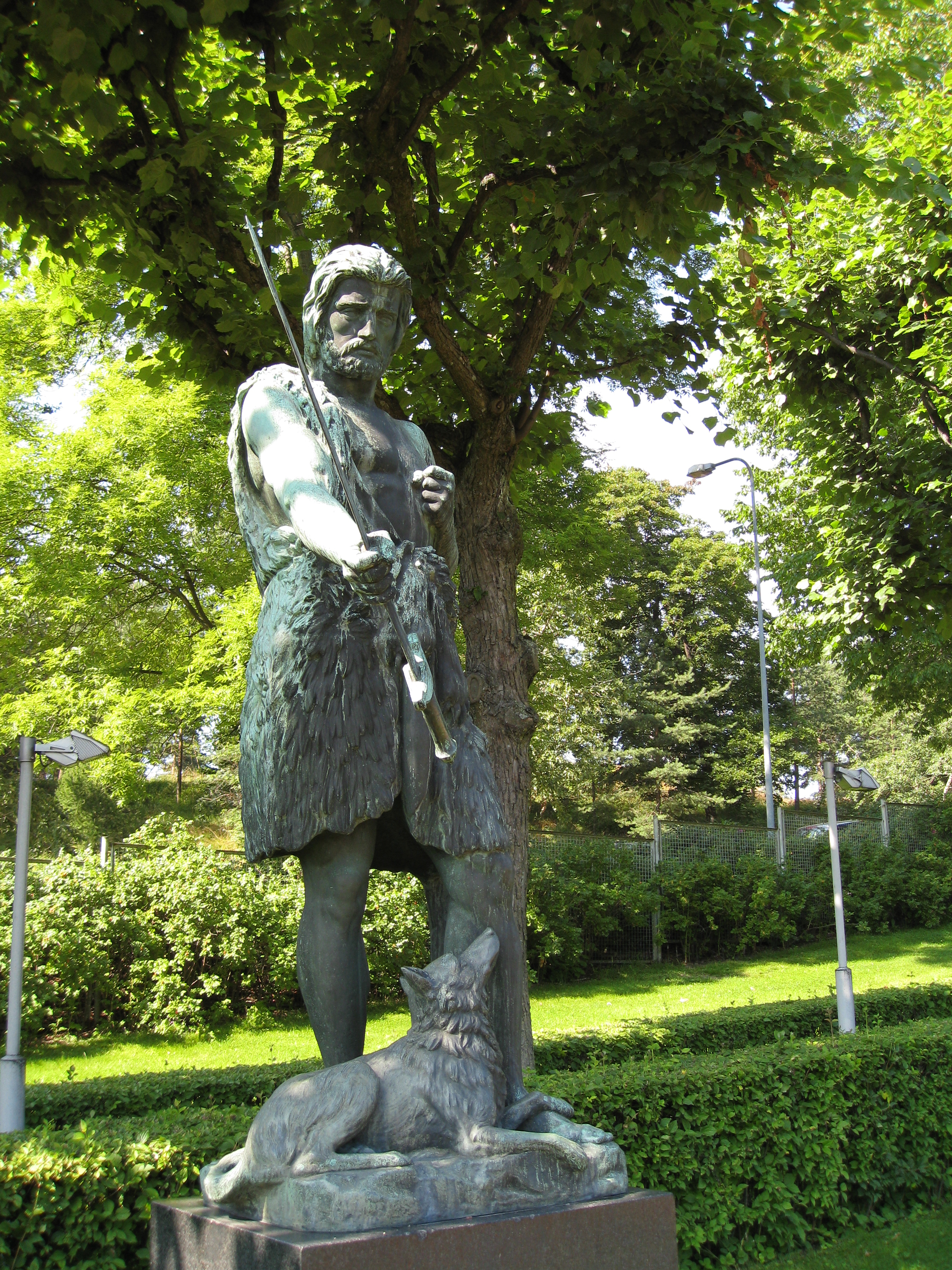 Statue Kullervo puhuu miekalleen (Kullervo Speaks to his Sword) in Helsinki by Carl Eneas Sjöstrand